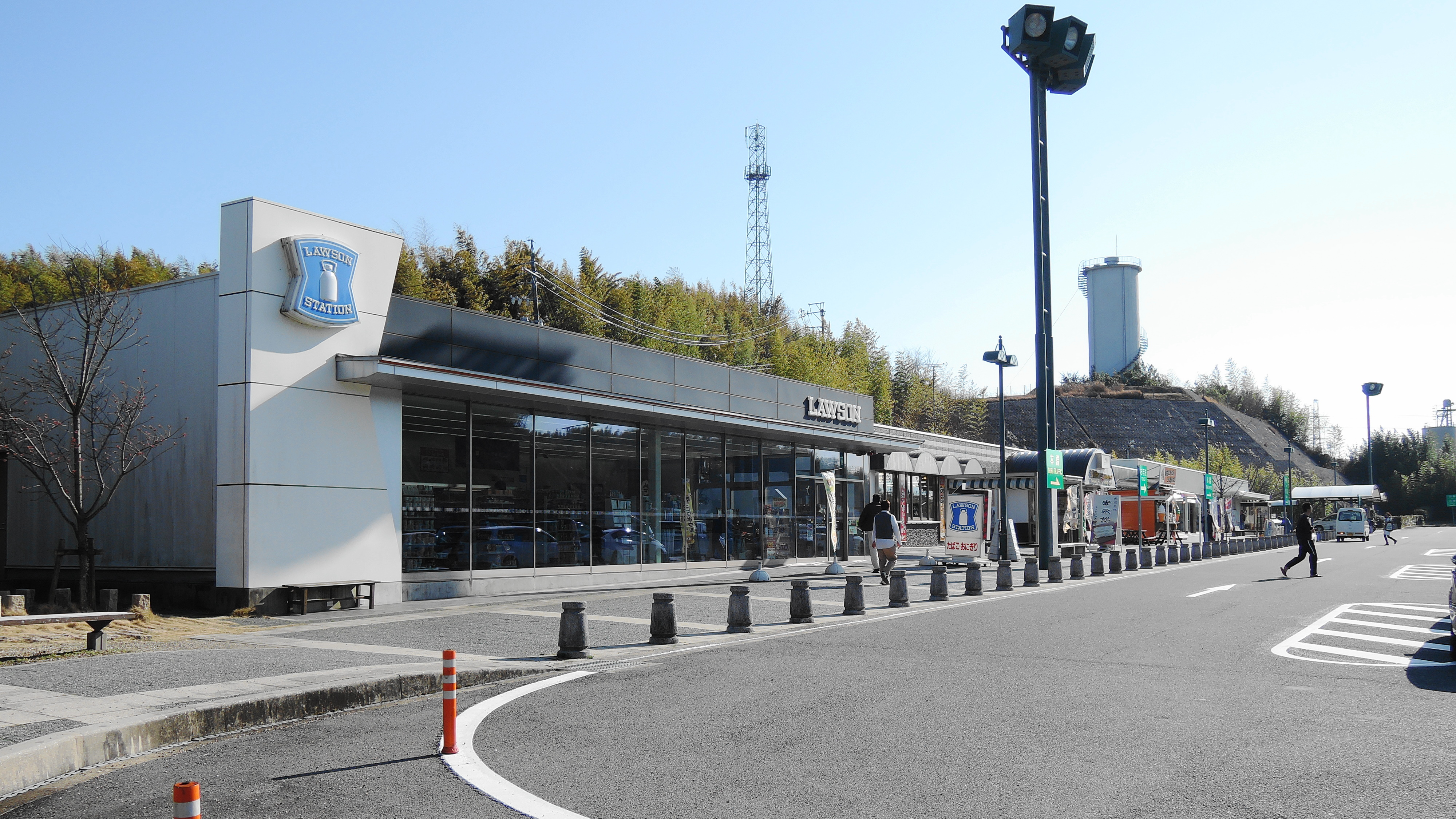 Oyamada Parking Area Kudari,Mie prefecture,Japan